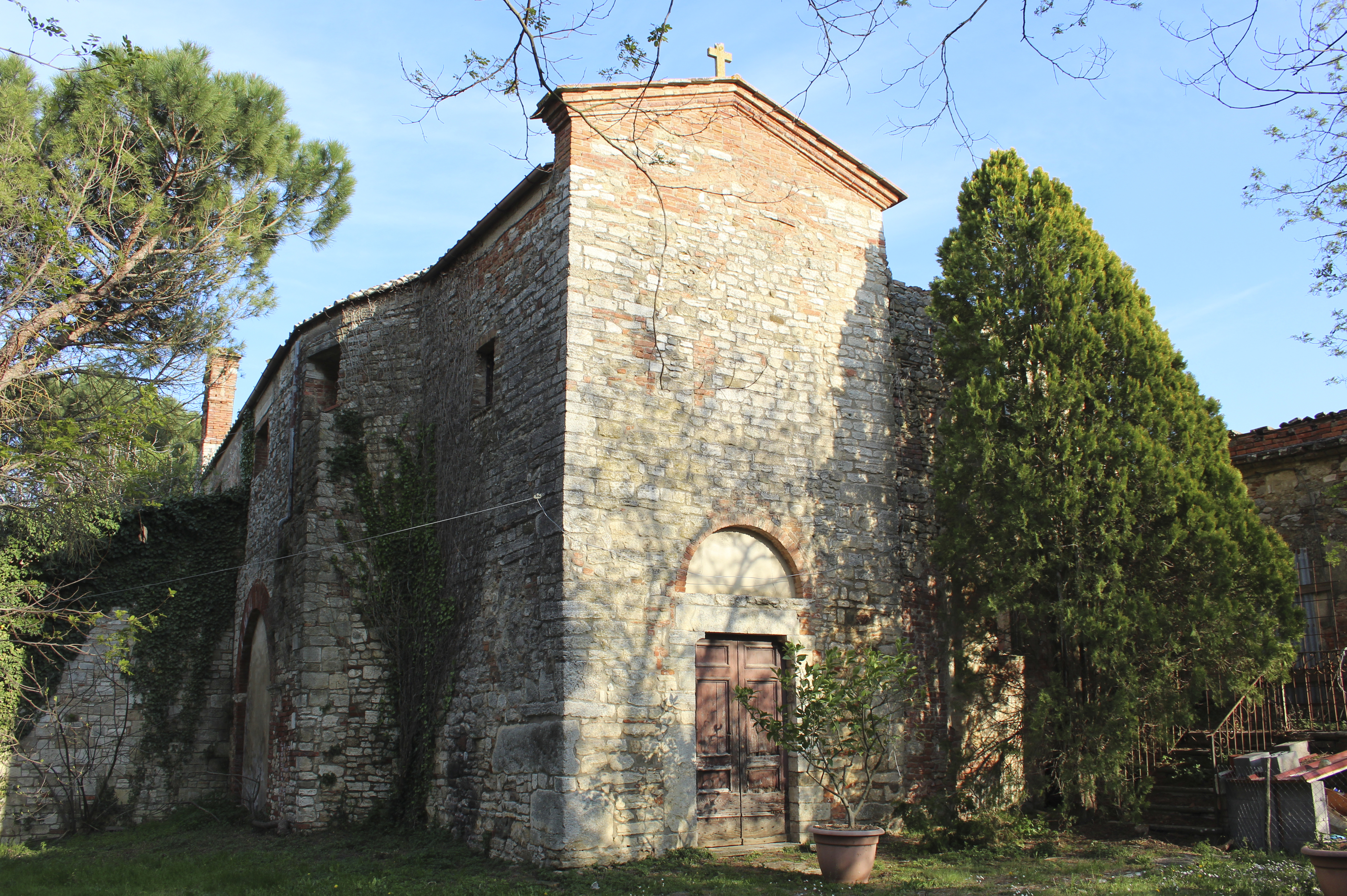 Church San Vito in Versuris, in the territory of Asciano, Province of Siena, Tuscany, Italy